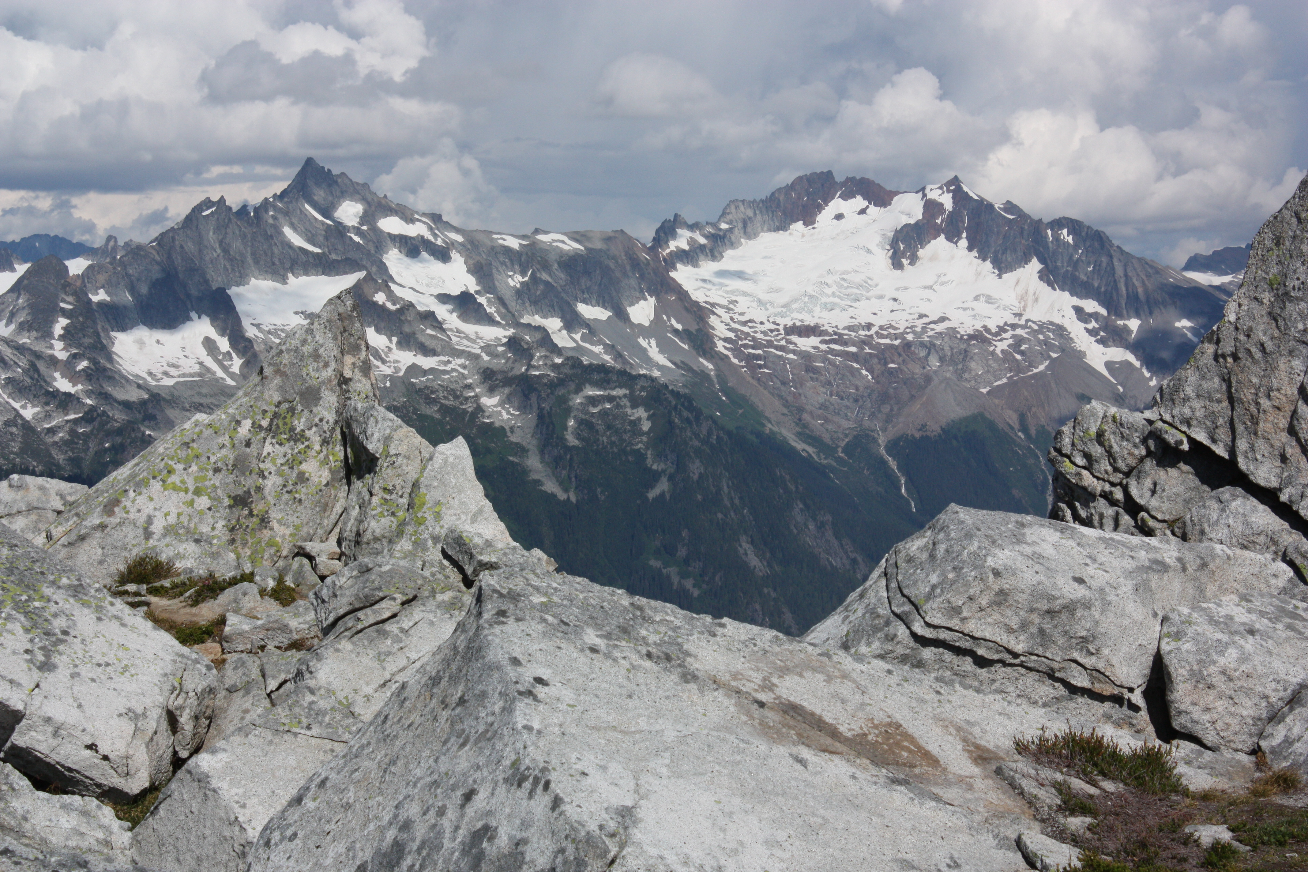 Boston Peak (right); Forbidden Peak(left); Quien Sabe Glacier (right center) Viewpoint location: Hidden Lake Trail, North Cascades National Park Viewpoint elevation: 1707 meter (5601 ft) View direction: 88° Location source: Garmin GPSmap 60CSx Location Datum: WGS84